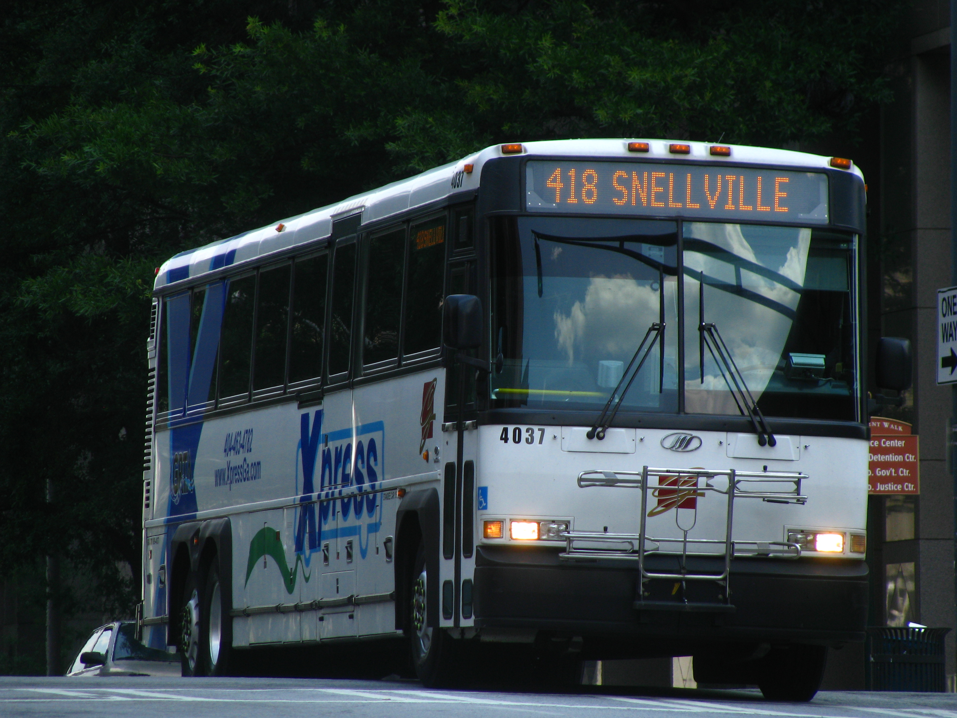 She operates under Gwinette Transit